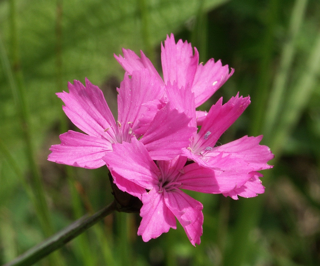 Dianthus carthusianorum, northern Baden-Württemberg, Germany